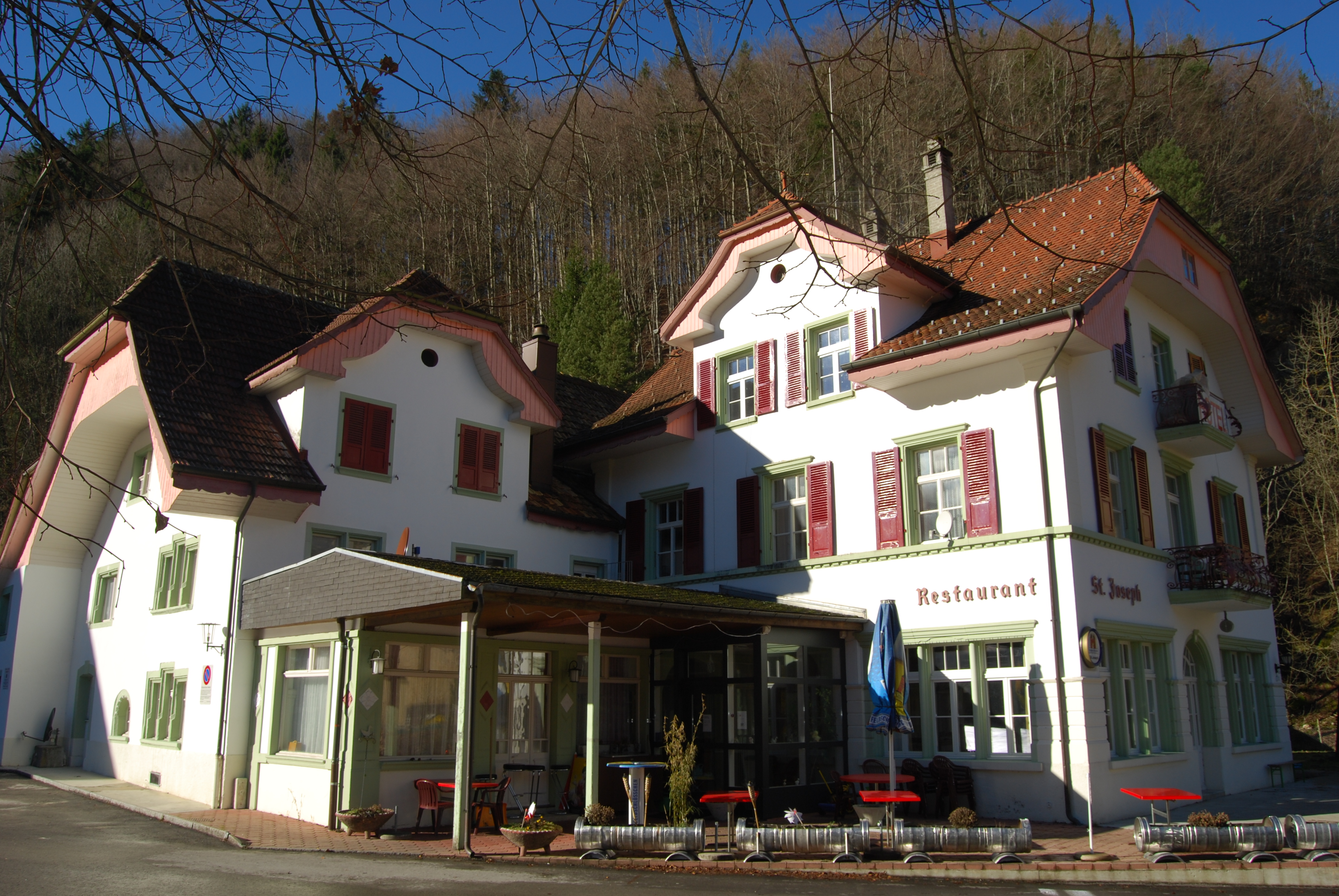 Restaurant and hotel St. Joseph at Gänsbrunnen, canton of Solothurn, Switzerland